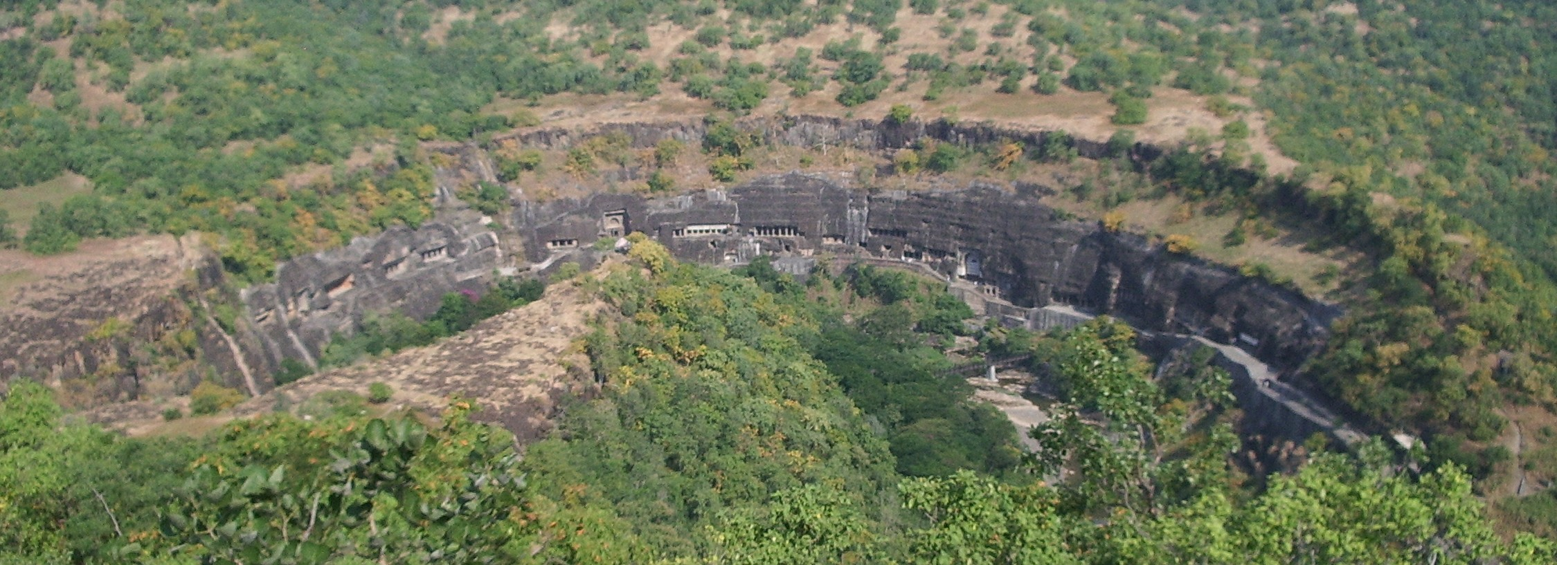 A view from Ajanta Caves from the other side of the river